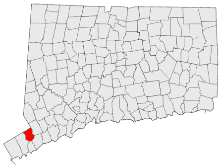 Locator map for New Canaan, Connecticut